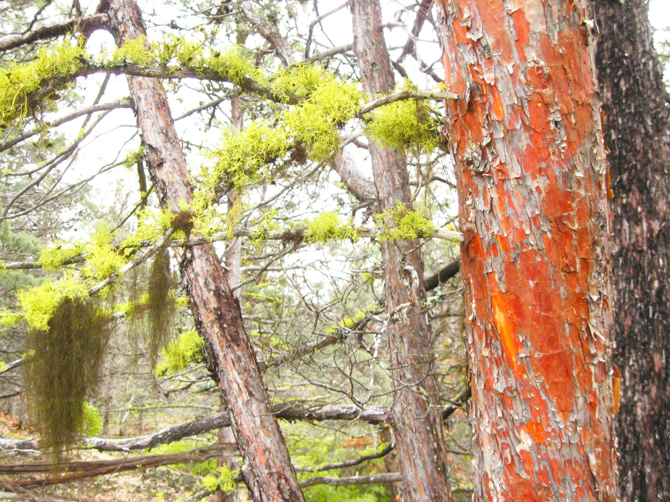 Cupressus bakeri bark, Timbered Crater Research NAtural Area, Modoc County, Ca